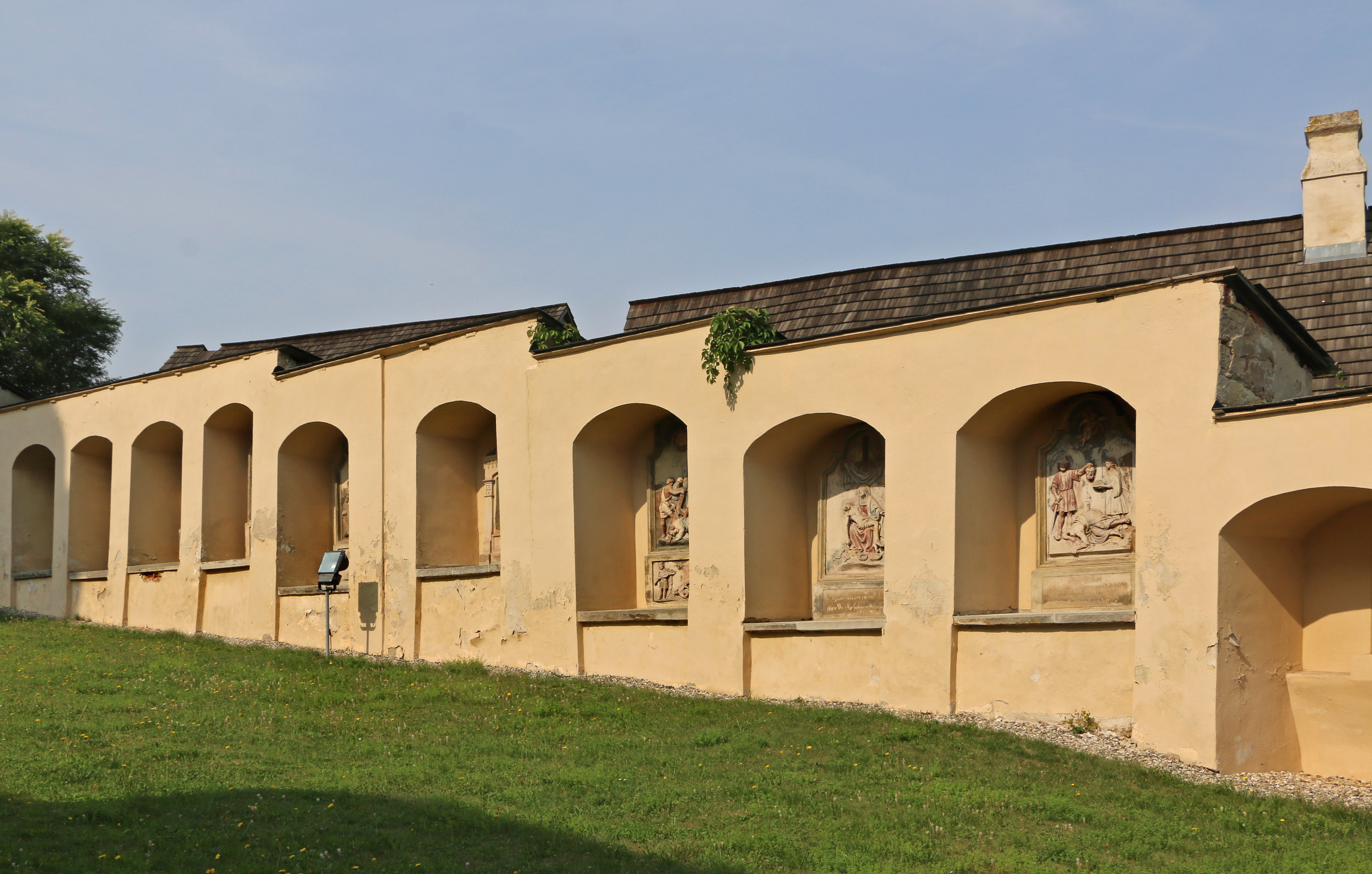 Stations of the Cross at Koclířov, Czech Republic.